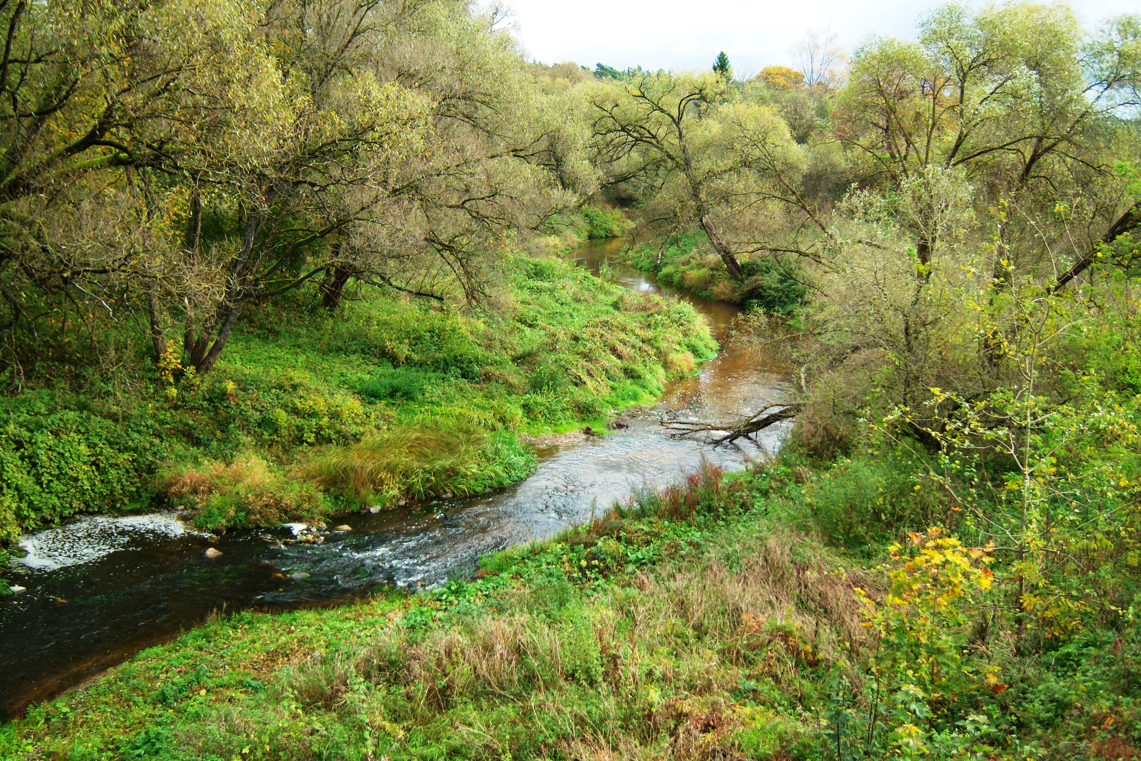 Lomena River by the Road No.143 Jonava-Elektrėnai, Lithuania